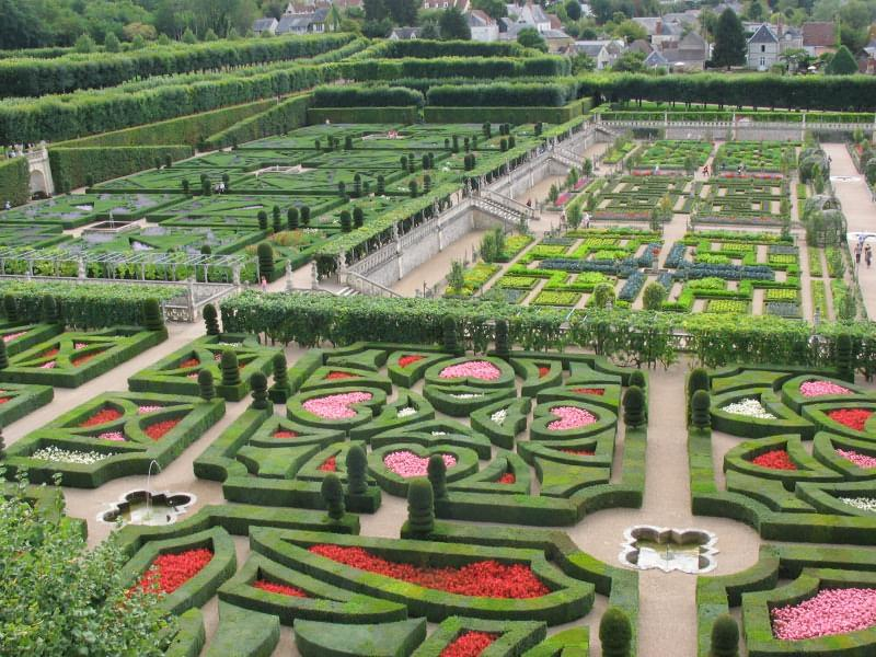 Gardens of the Chateau de Villandry